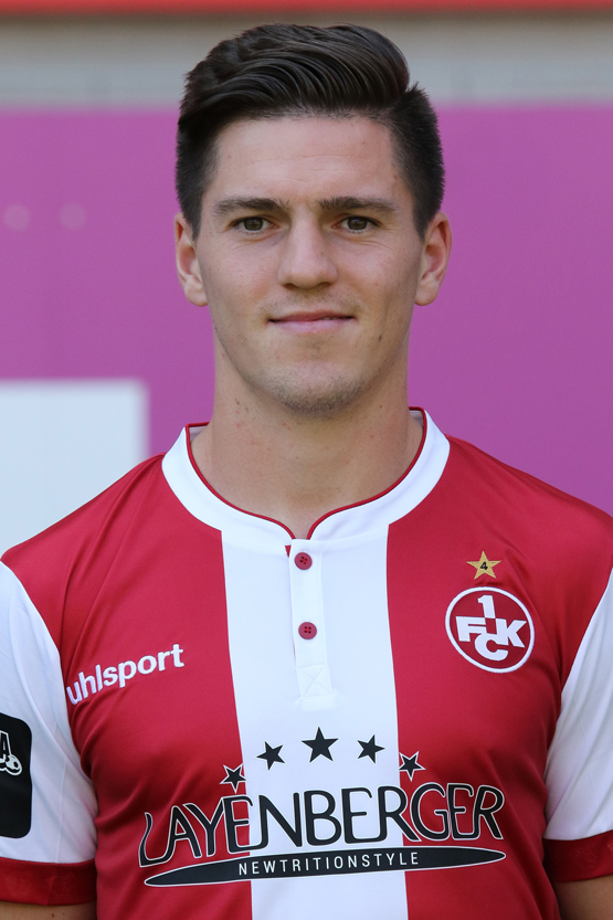 Dominik Schad (Nr. 20)